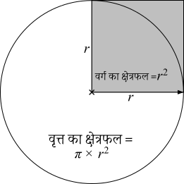 Circle Area hi